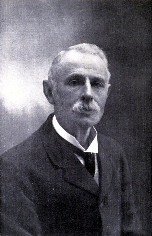 Frederick Wilding (1852-1945), father of tennis player Anthony Wilding